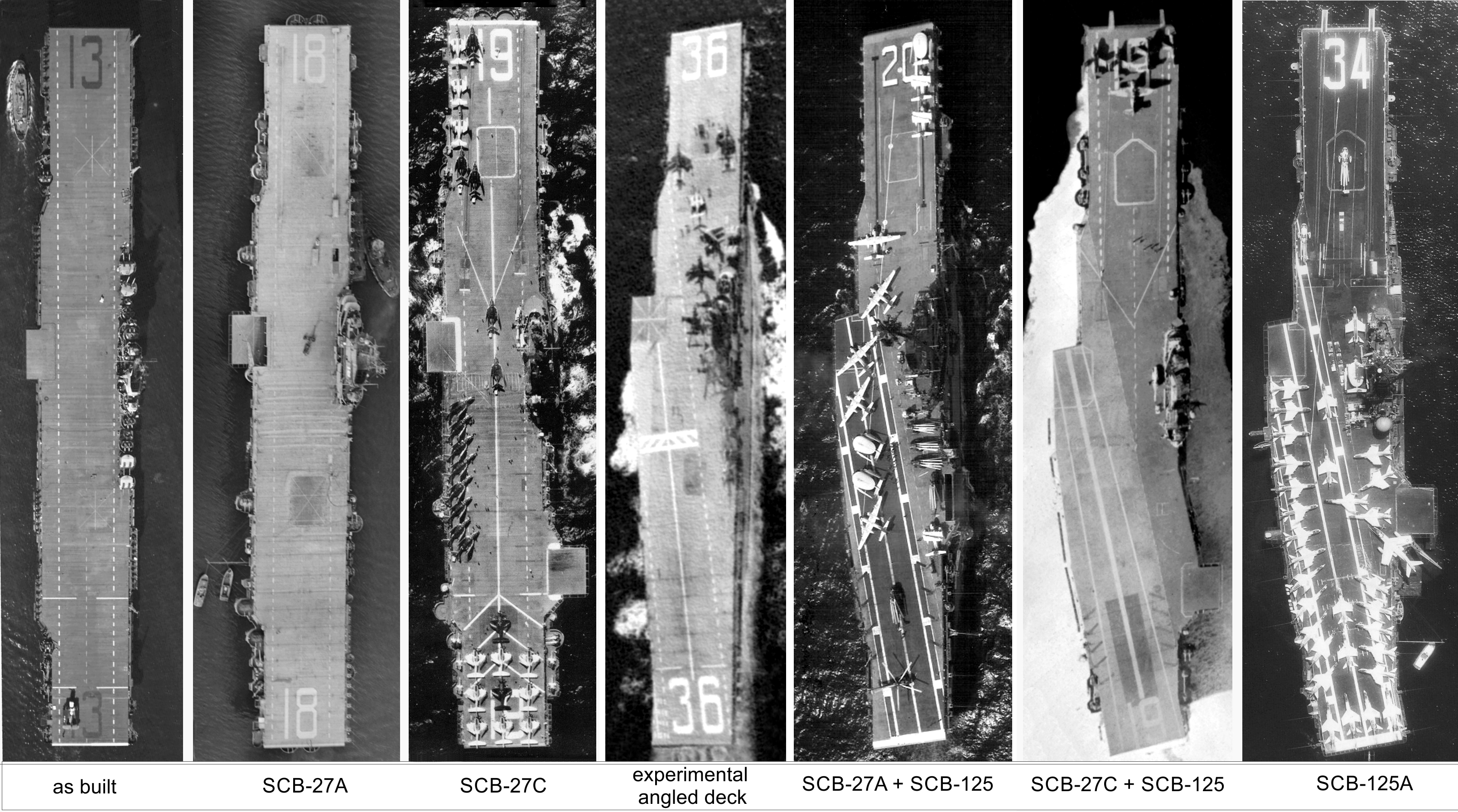 Seven aerial photographs showing the major different modernizations of the U.S. Navy Essex-class aircaft carriers (l-r): USS Franklin (CV-13), a "short hull" type as delivered, 21 February 1944. Franklin, USS Bunker Hill (CV-17), USS Boxer (CV-21), USS Princeton (CV-37), USS Tarawa (CV-40), USS Valley Forge (CV-45) and USS Philippine Sea (CV-47) received no or little modernization. USS Wasp (CV-18), after her SCB-27A conversion in late 1951: new hydraulic catapults, new island, removal of the deck guns, new bow. Modernized as such were USS Essex (CV-9), USS Yorktown (CV-10), USS Hornet (CV-12), USS Randolph (CV-15), Wasp, USS Bennington (CV-20), USS Kearsarge (CV-33) and USS Lake Champlain (CV-39). USS Oriskany (CV-34) was completed as such. USS Hancock (CV-19) after her SCB-27C modernization, circa 1955: like SCB-27A but new steam catapults and relocation of the aft elevator to the deck edge. USS Intrepid (CV-11) and USS Ticonderoga (CV-14) also received SCB-27C. USS Antietam (CV-36) after the installation of an experimental angled deck, circa 1954. USS Bennington (CV-20) after SCB-125: enclosed hurricane bow, angled deck, starboard deckedge elevator. USS Essex (CV-9), USS Yorktown (CV-10), USS Hornet (CV-12), USS Randolph (CV-15), Wasp, USS Bennington (CV-20) and USS Kearsarge (CV-33) received SCB-125. USS Hancock (CV-19) after SCB-125 in April 1957. The three SCB-27C ships were modernized as such an had the starboard deckedge elevator located further aft. The forward elevator was enlarged. USS Oriskany (CV-34) received SCB-125A, here on 30 May 1974. Similar to SCB-27C/SCB-125, only the starboard deckedge elevator was located further forward, as with the SCB-27A/SCB-125 ships. USS Lexington (CV-16), USS Bon Homme Richard (CV-31) and USS Shangri-La (CV-38) received SCB-27C/SCB-125 in one refit but had the starboard elevator in the same position as Oriskany.